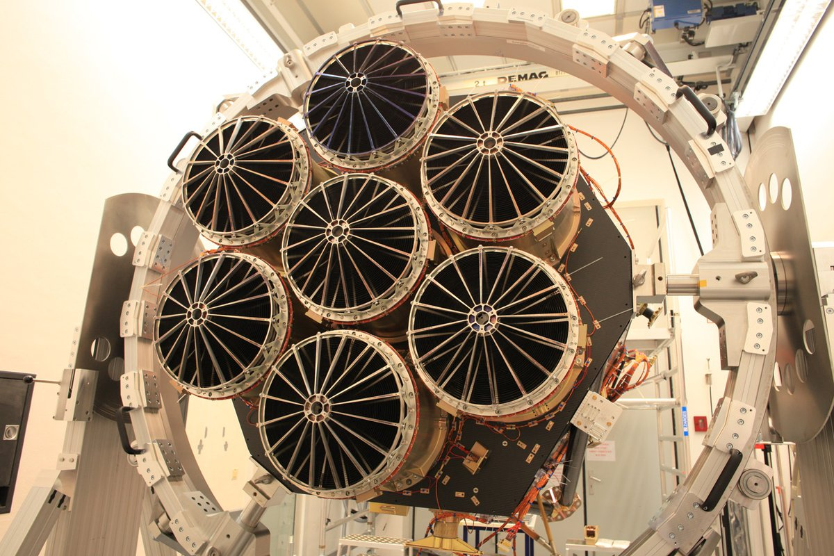 The eROSITA telescope consists of seven identical mirror modules, shown here from the front.